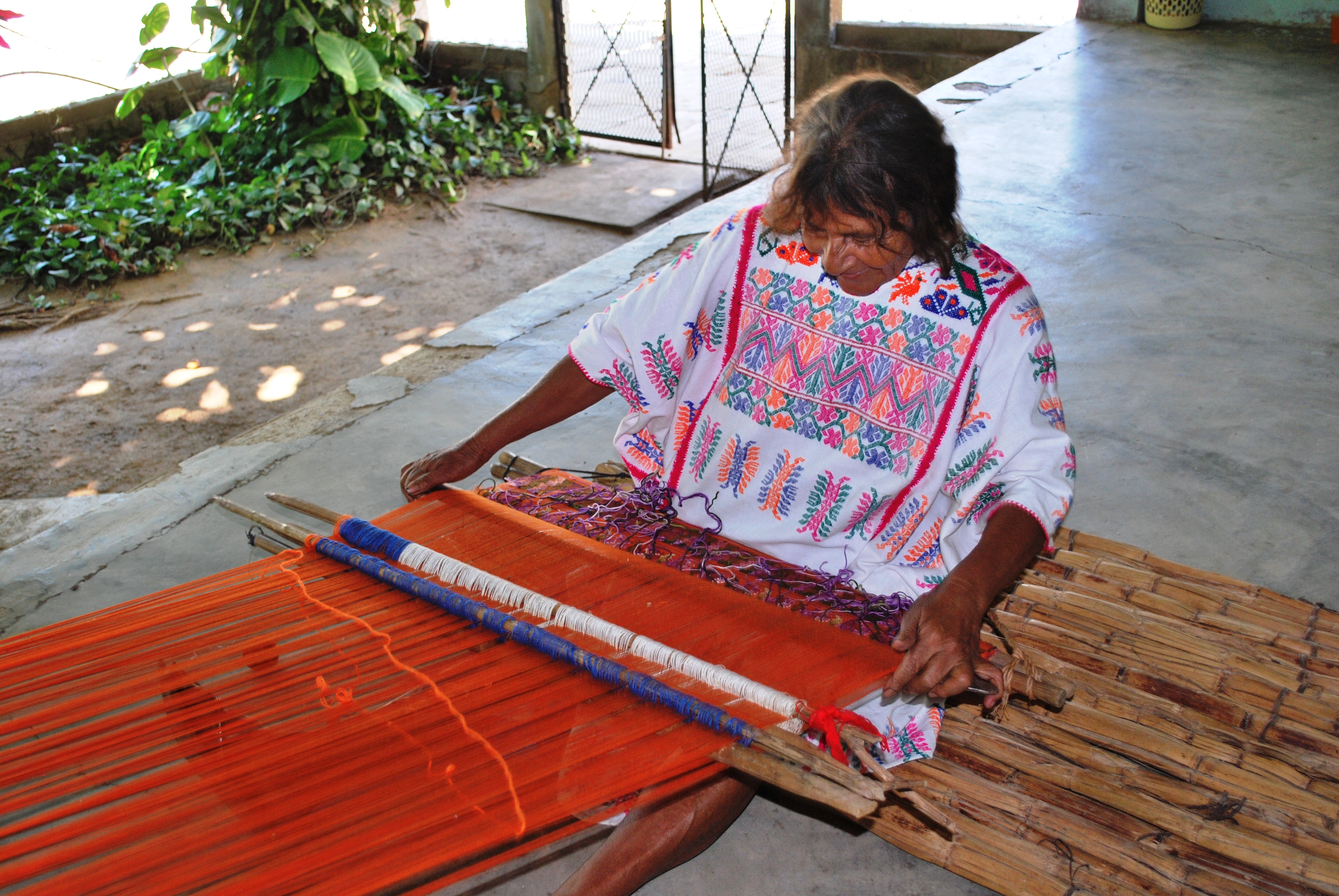 Amuzgo woman weaving rebozo in Xochistlahuaca, Guerrero